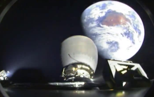 Just before sunset at 6:03pm ET on Wednesday, Feb. 11th, Falcon 9 lifted off from SpaceX’s Launch Complex 40 at Cape Canaveral Air Force Station, Fla. carrying the Deep Space Climate Observatory (DSCOVR) satellite on SpaceX’s first deep space mission.